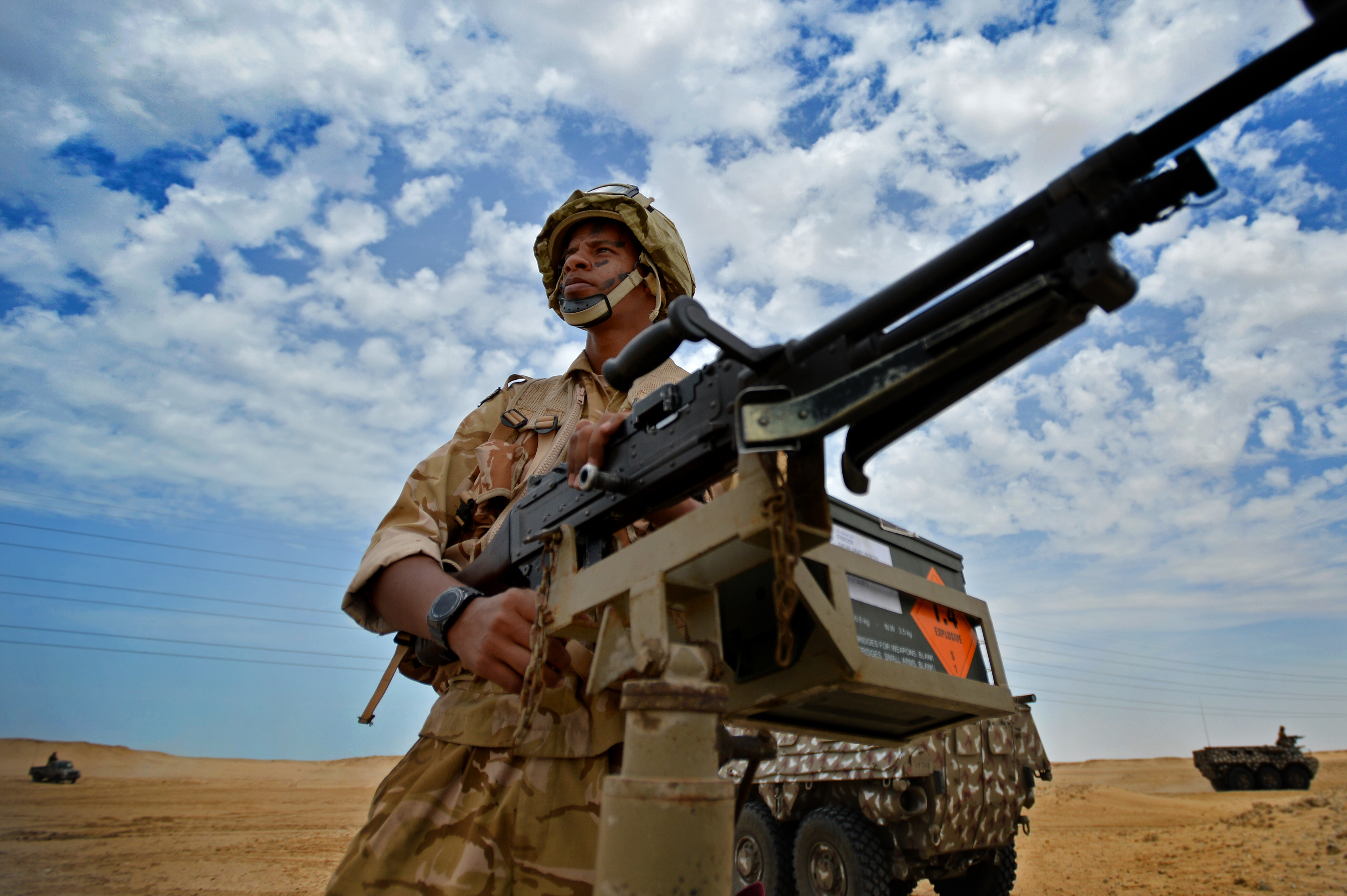 A Qatar Armed Forces member mans his weapon from the bed of a truck as his unit prepares for a joint counter-terrorism exercise with the U.S. military and other partnering nations in Zikrit, Qatar, April 28. Perimeter security was vital in order to cover for special operations forces to take over the terrorist village. Exercise Eagle Resolve demonstrates U.S. Central Command's dedication to GCC regional partners and the combined efforts to sustain regional security and stability. (U.S. Air Force photo by Staff Sgt. Kenny Holston/Released) Unit: 20th Fighter Wing Public Affairs DVIDS Tags: Qatar; 3rd Battalion; USCENTCOM; 2nd Marines; AFCENT; NAVCENT; U.S. Air Force; U.S. Army; U.S. Navy; USS San Antonio; ARCENT; Holston; Eagle Resolve; Eagle Resolve 2013; U.S. Marine Lima Company; CH-53 Super Stallion helicopters; USAF SSgt Holston SOCCENT; and U.S. Marines; DVIDS Frontpage